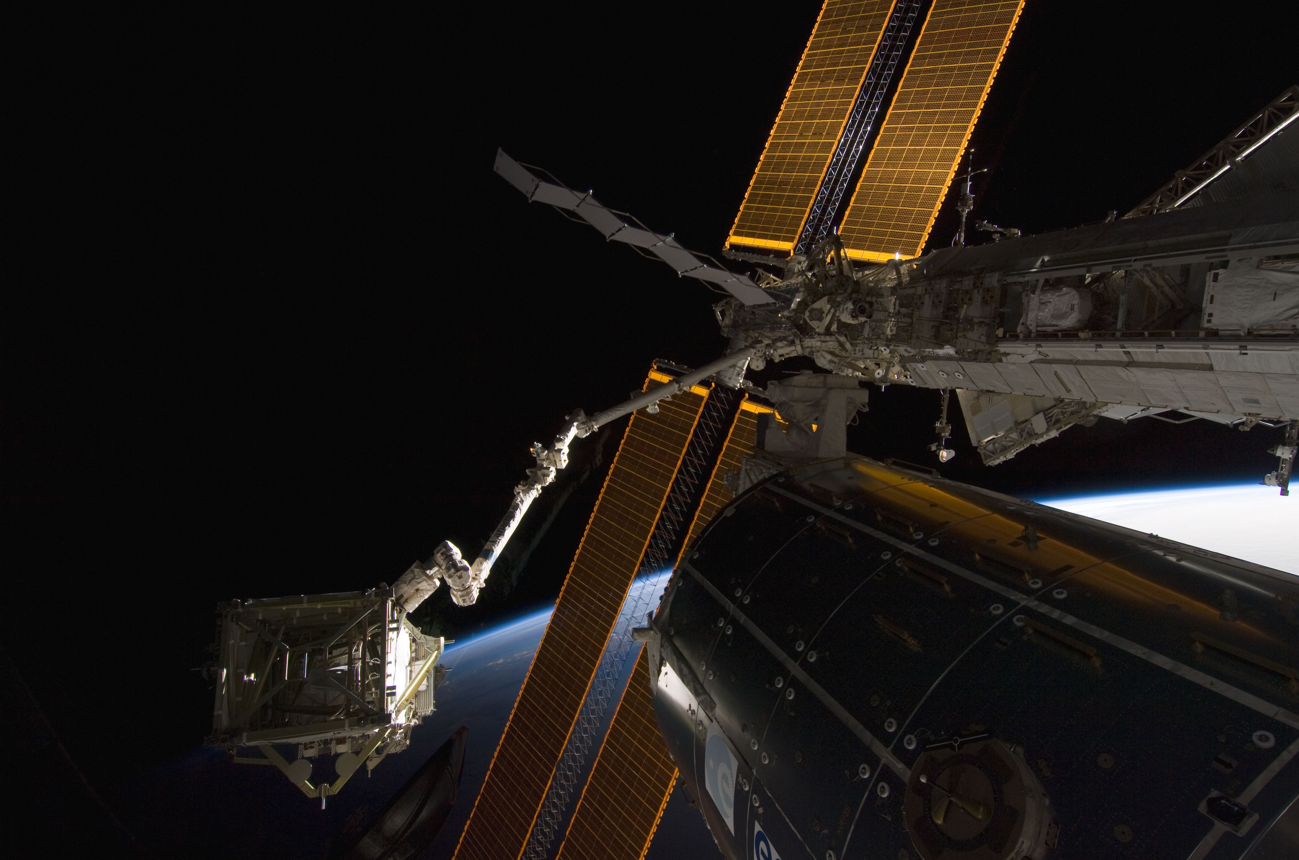 In the grasp of the International Space Station's robotic Canadarm2, the S6 truss segment was photographed by a STS-119 crewmember while Space Shuttle Discovery is docked with the station. The S6 truss segment was moved from Discovery's cargo bay by the shuttle's remote manipulator system (RMS) and handed off to the station's Canadarm2 where it will remain in an overnight parked position. Also visible in the image are the Columbus laboratory, starboard truss and solar array panels.